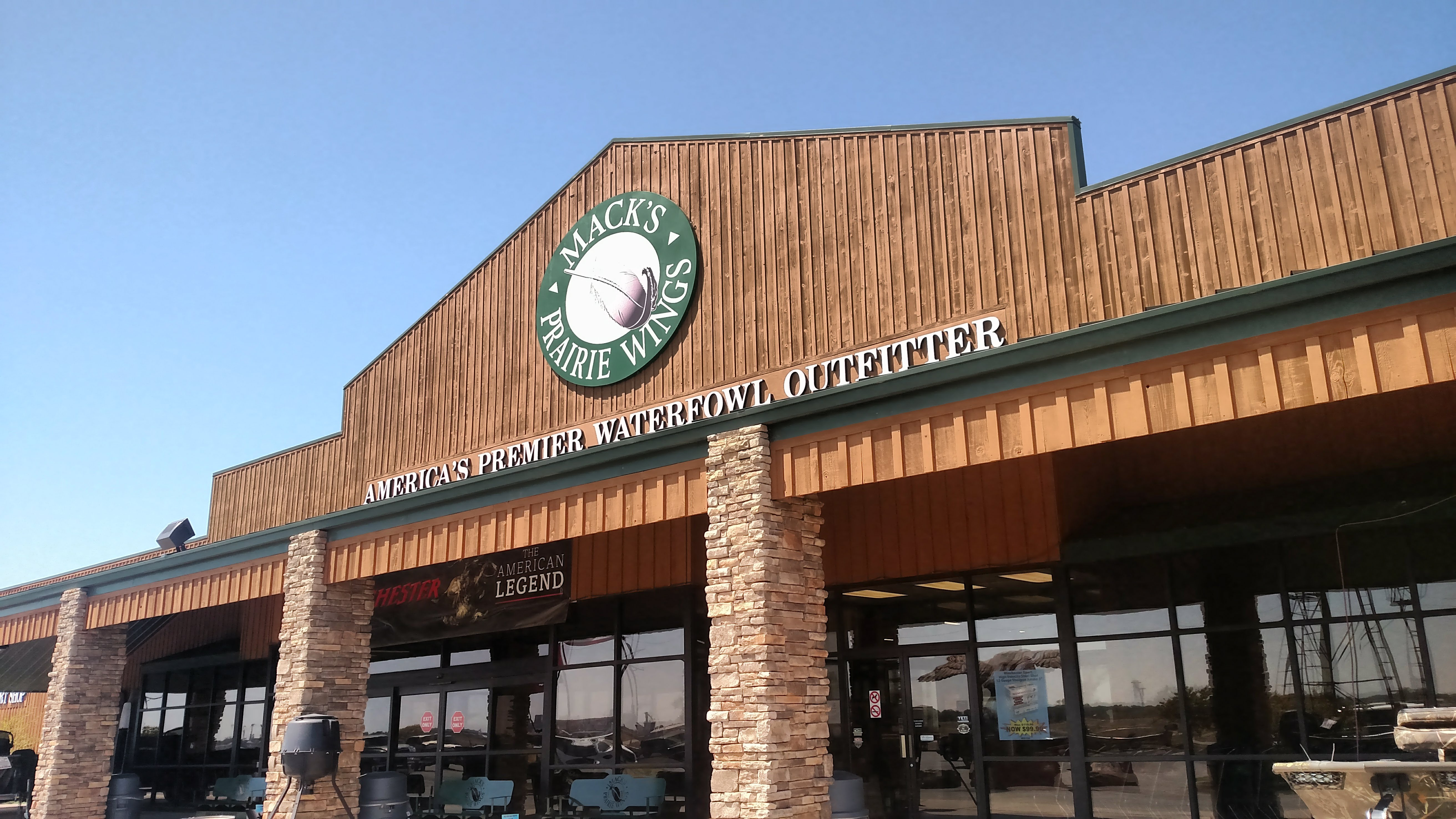 Macks Prairie Wings in Stuttgart, AR